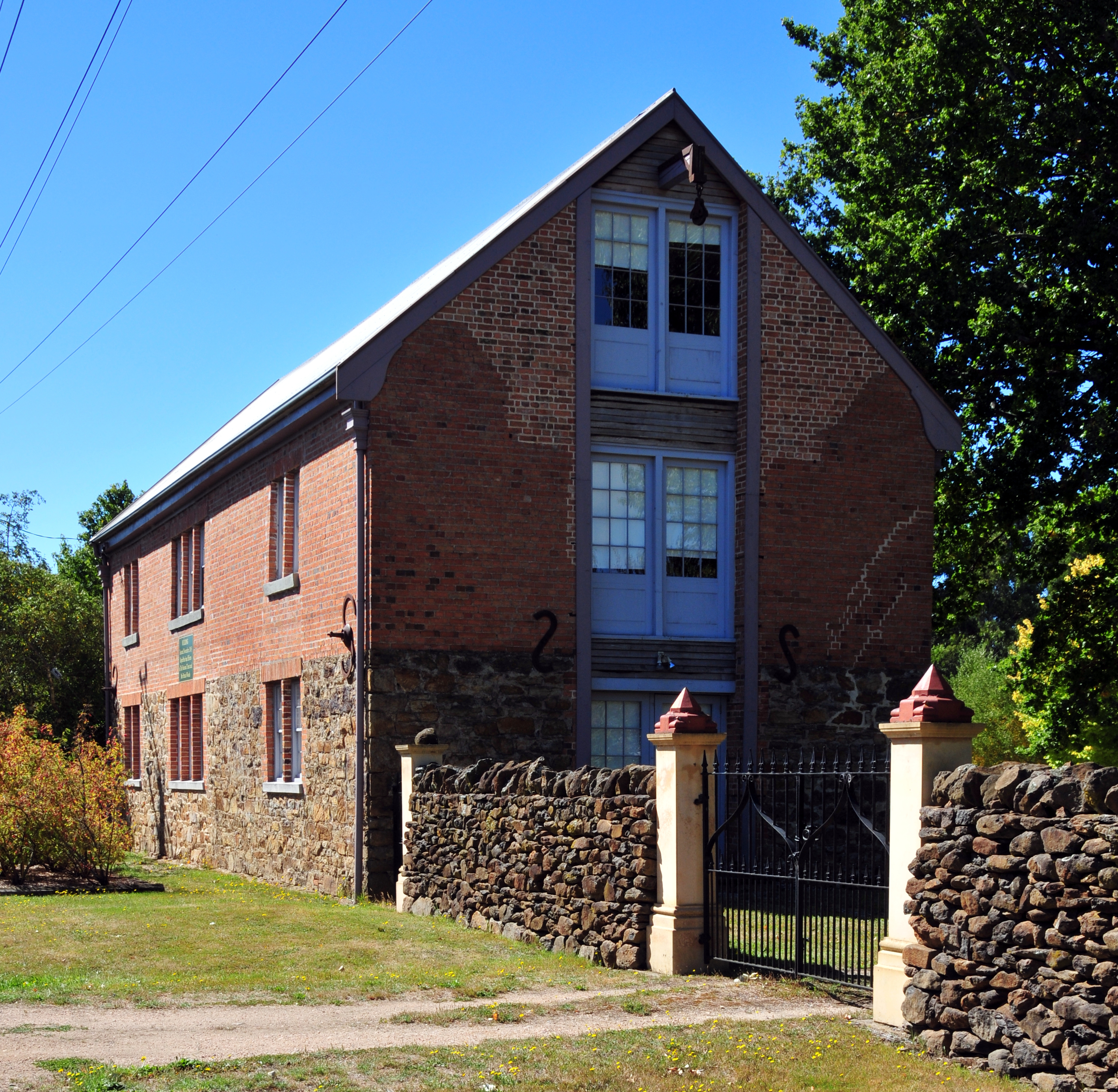 Former Van Diemen's Land Company grain store building, restored in 2002. Chudleigh, Tasmania, Australia